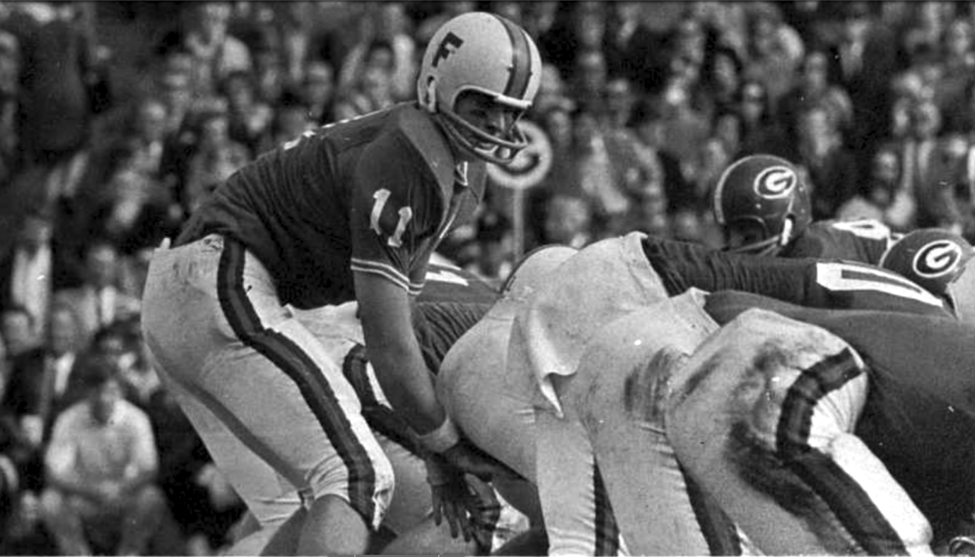 Photograph of Steve Spurrier behind center against Georgia in 1966